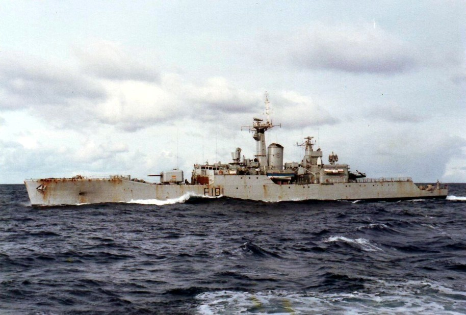 The Royal Navy Rothesay-class frigate HMS Yarmouth (F101) underway during the Falklands War on 5 June 1982. Yarmouth´s inofficial nickname was "The Crazy Y".